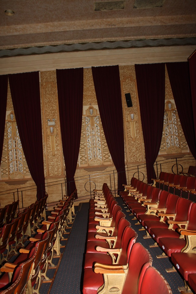 Roxy Theatre and Peters Greek Cafe Complex: Auditorium